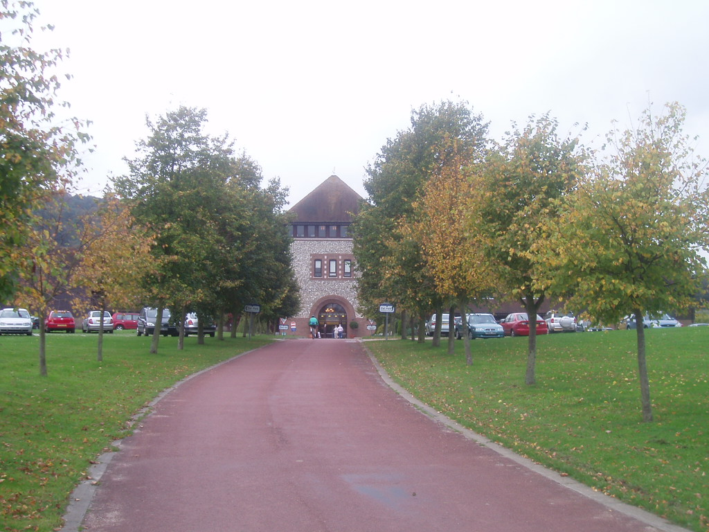 Created by Ojw while surveying for OpenStreetMap